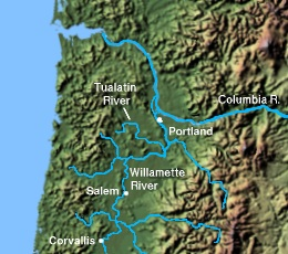 Tualatin River ©2004 Matthew Trump